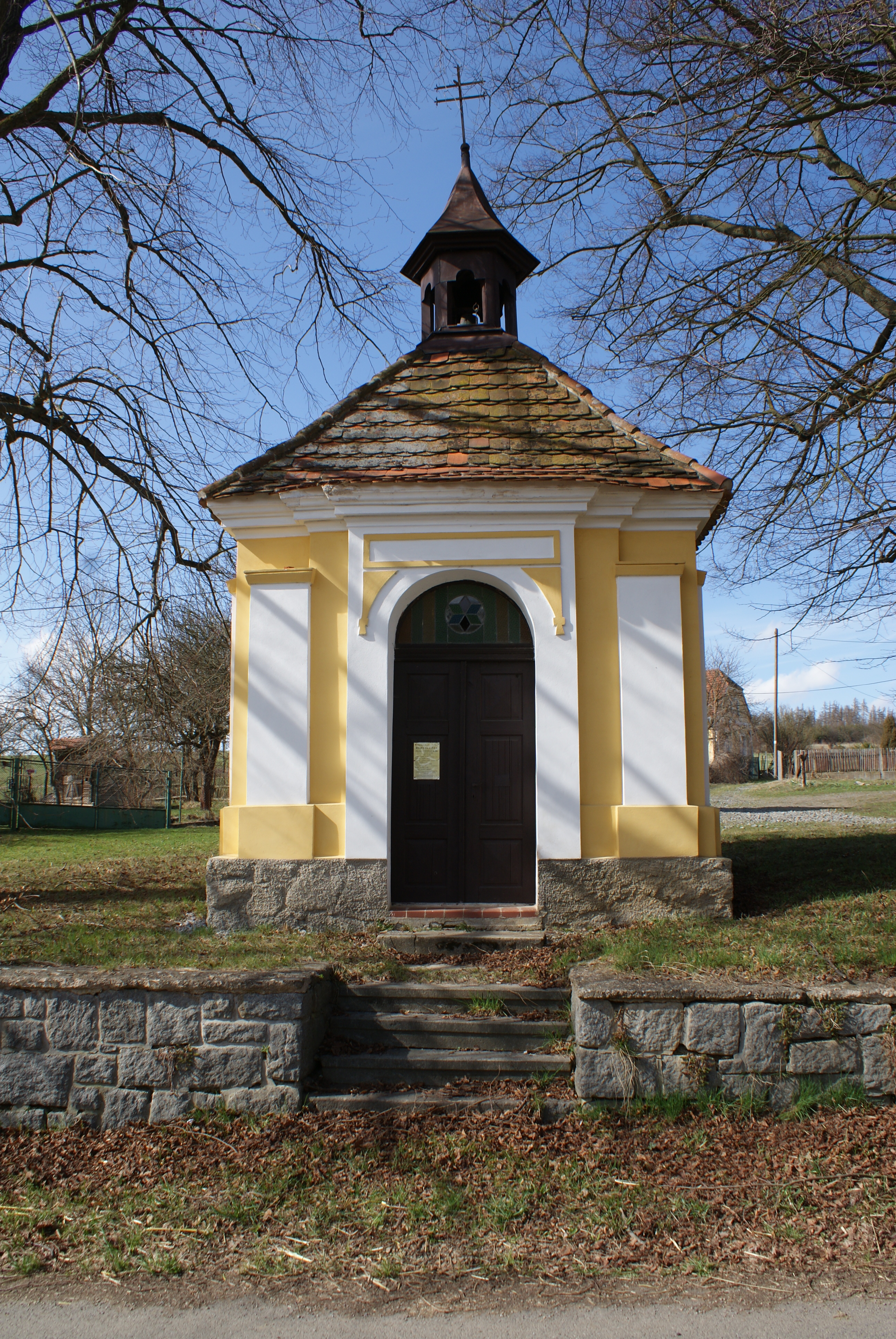 Osobovy, village in Klatovy district, Czech Republic. A chapel on the village common. Česky: Osobovy, okres Klatovy, Česká republika. Kaplička na návsi.